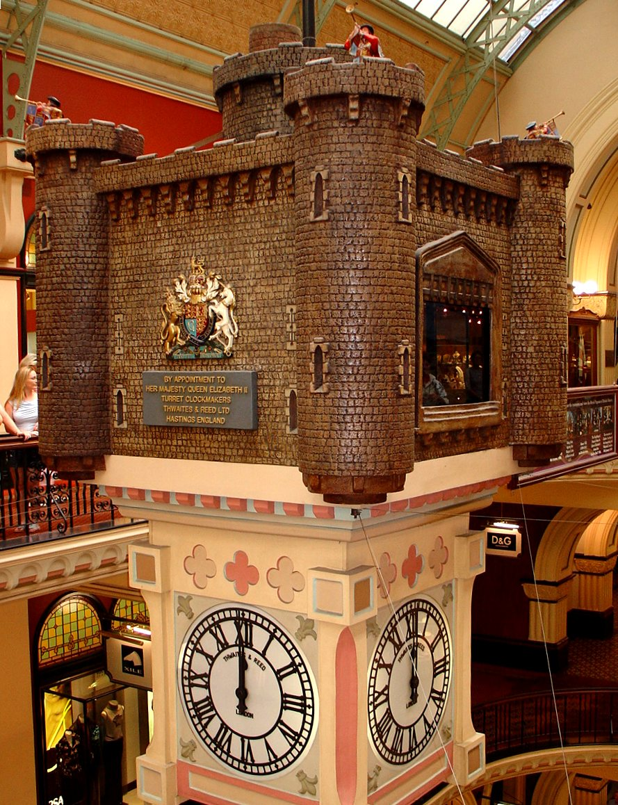 The Royal Clock, Queen Victoria Building, Sydney, Australia.